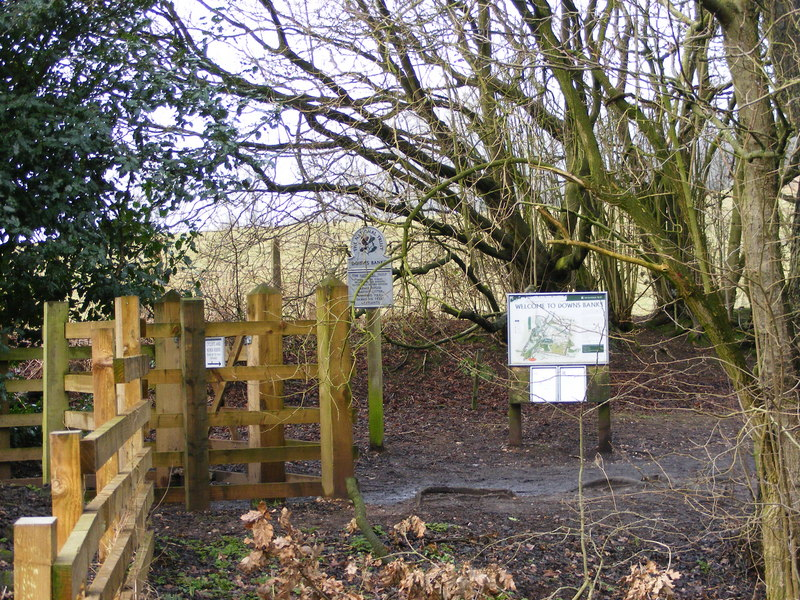 Downs Banks Entrance The south entrance to the National Trust Site off Wash Dale Lane, Oulton.